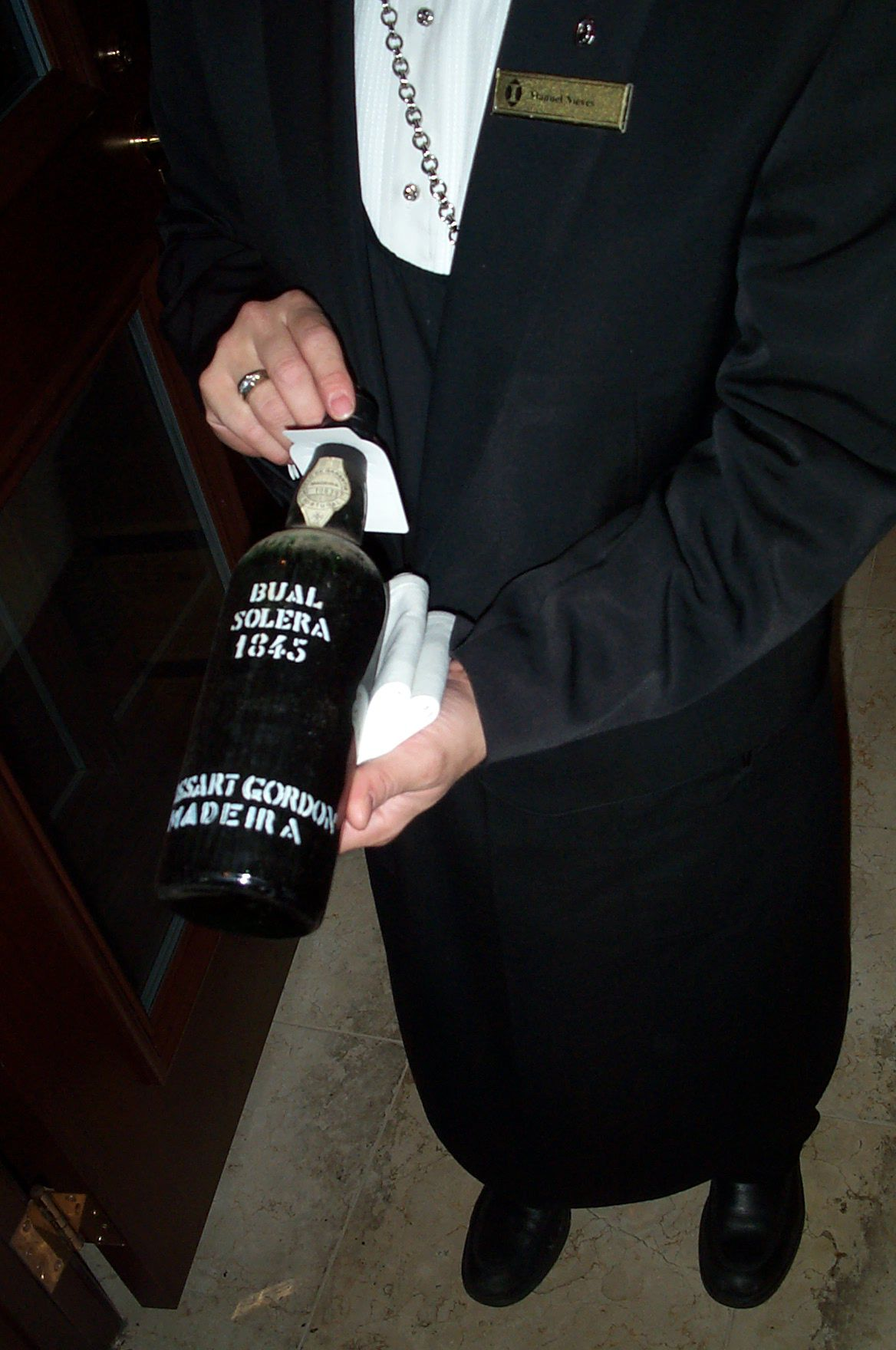 A bottle of 1843 Bual Madeira